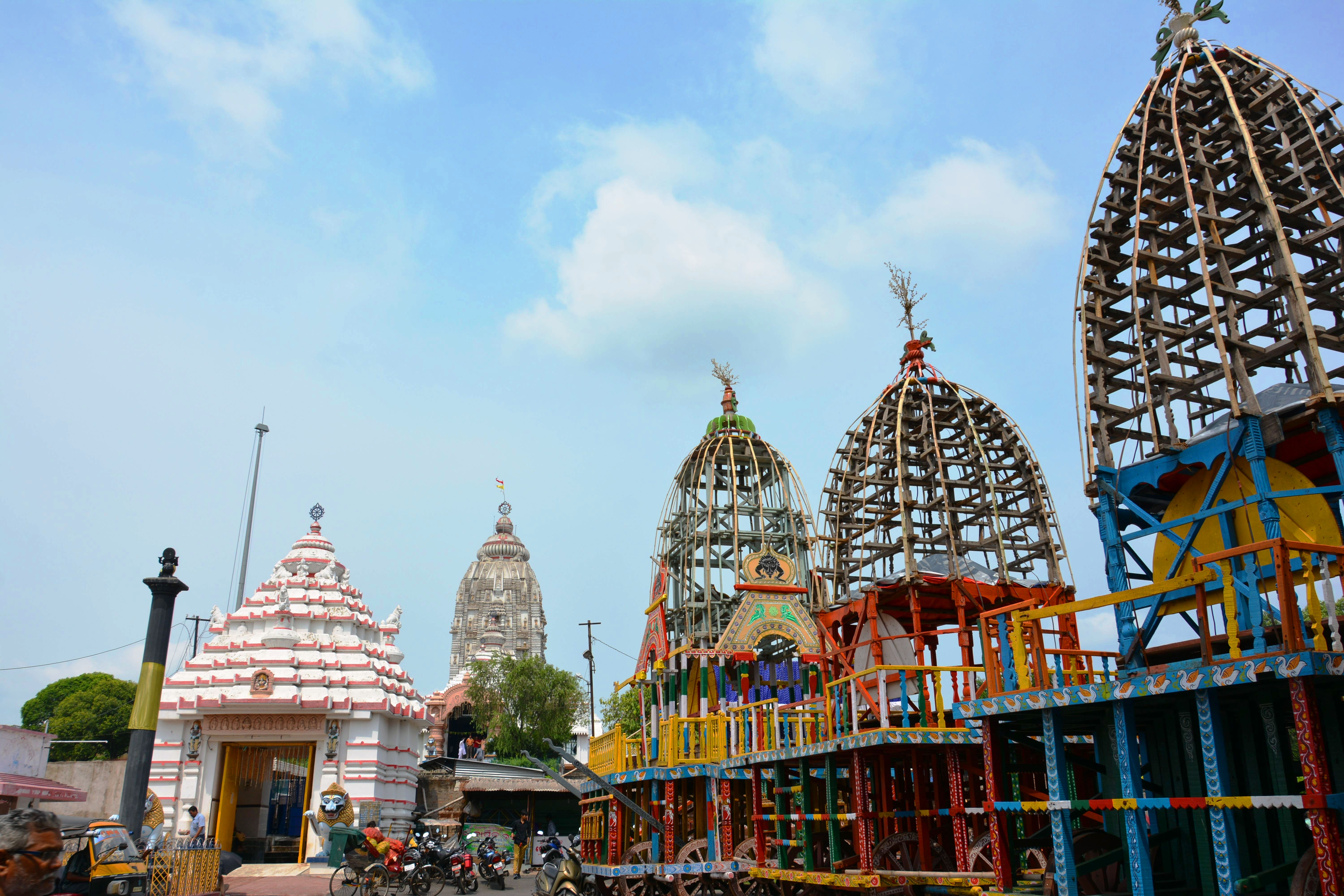 Angul Pre Car festival